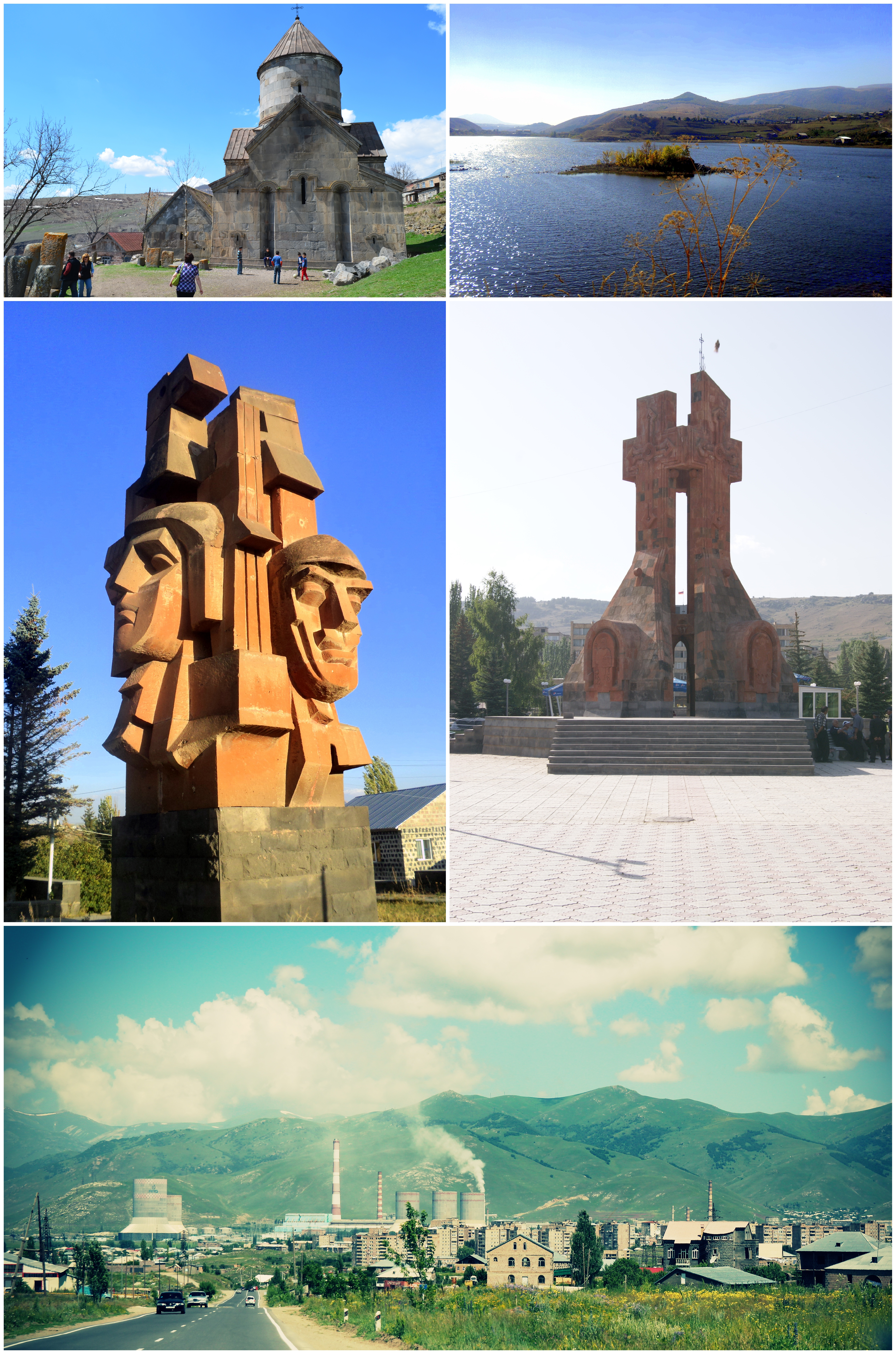 Hrazdan town collection of pictures, Kotayk, Armenia.